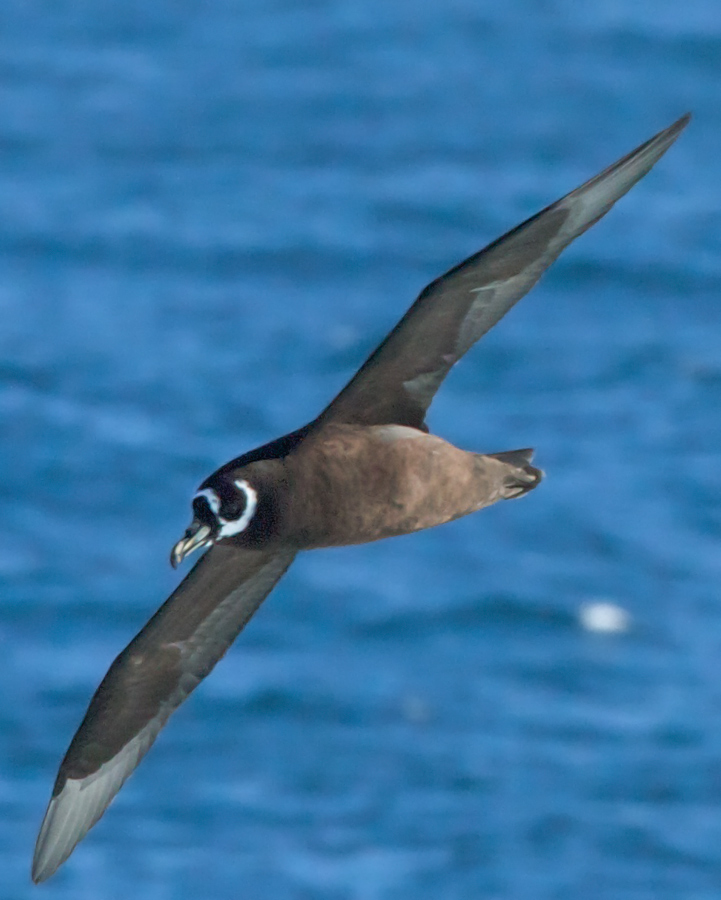 The Spectacled Petrel is a member of the Procellaria genus, and in turn is a member of the Procellariidae family, and the Procellariiformes order. As a member of the Procellariiformes, they share certain identifying features. First, they have nasal passages that attach to the upper bill called naricorns. Although the nostrils on the Prion are on top of the upper bill. The bills of Procellariiformes are also unique in that they are split into between 7 and 9 horny plates. They produce a stomach oil made up of wax esters and triglycerides that is stored in the proventriculus. This is used against predators as well as an energy rich food source for chicks and for the adults during their long flights.Finally, they also have a salt gland that is situated above the nasal passage and helps desalinate their bodies, due to the high amount of ocean water that they imbibe. It excretes a high saline solution from their nose. In 2004, BirdLife International split the Spectacled Petrel, Procellaria conspicillata, from the White-chinned Petrel, Procellaria aequinoctialis, which had been considered conspecific or even a color morph. This is a retouched picture, which means that it has been digitally altered from its original version. Modifications: Cropped. The original can be viewed here: Spectacled Petrel, Procellaria conspicillata.jpg. Modifications made by Roarjo.